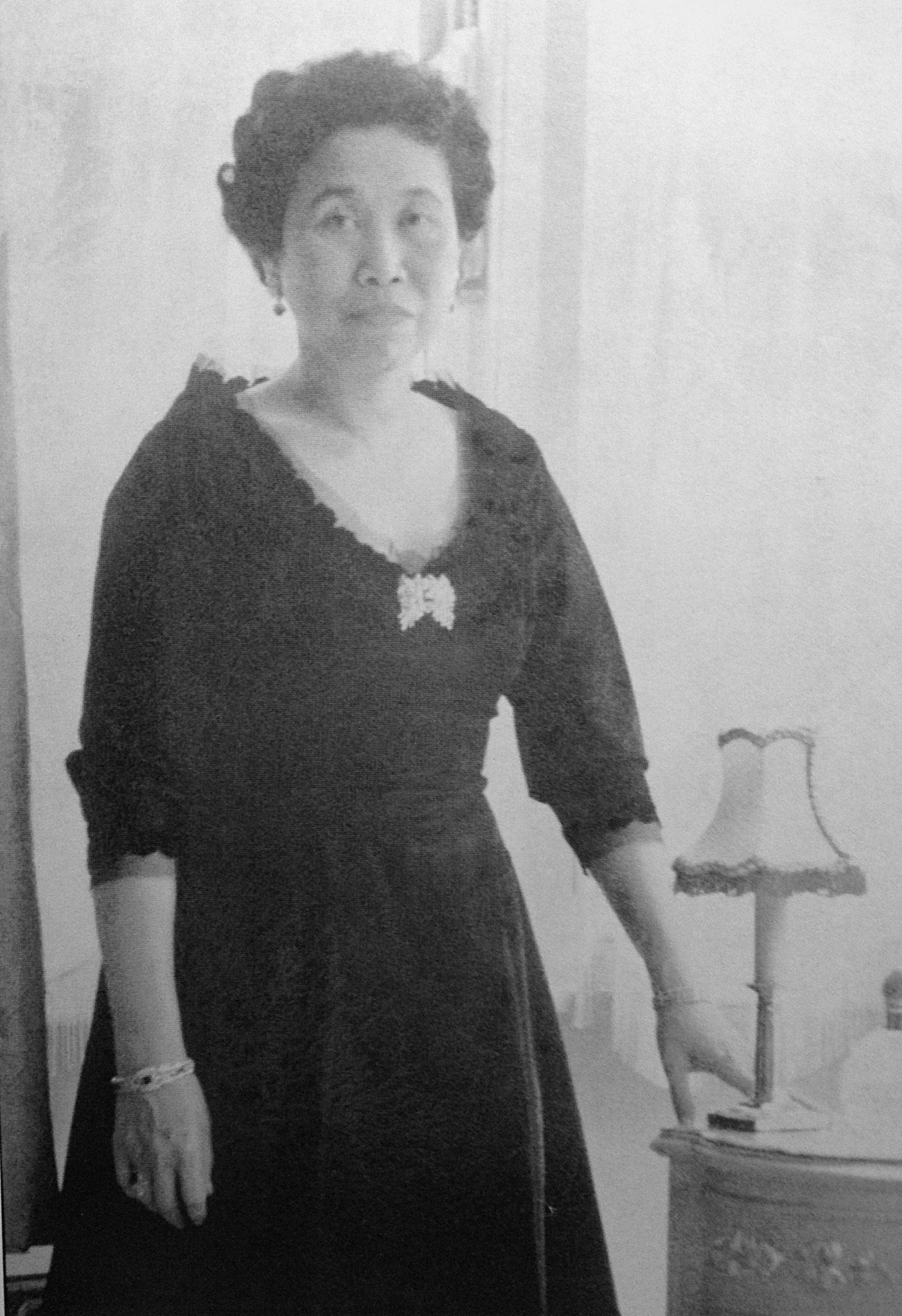 Her Majesty Queen Suvadhana in Rama VI